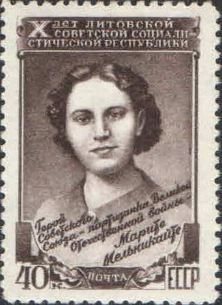 A Soviet stamp commemorating the 10th anniversary of the creation of the Lithuanian SSR and bearing an image of Marytė Melnikaitė (1923-1943), a young Lithuanian partisan martyred by the Nazis, posthumous Hero of the Soviet Union.